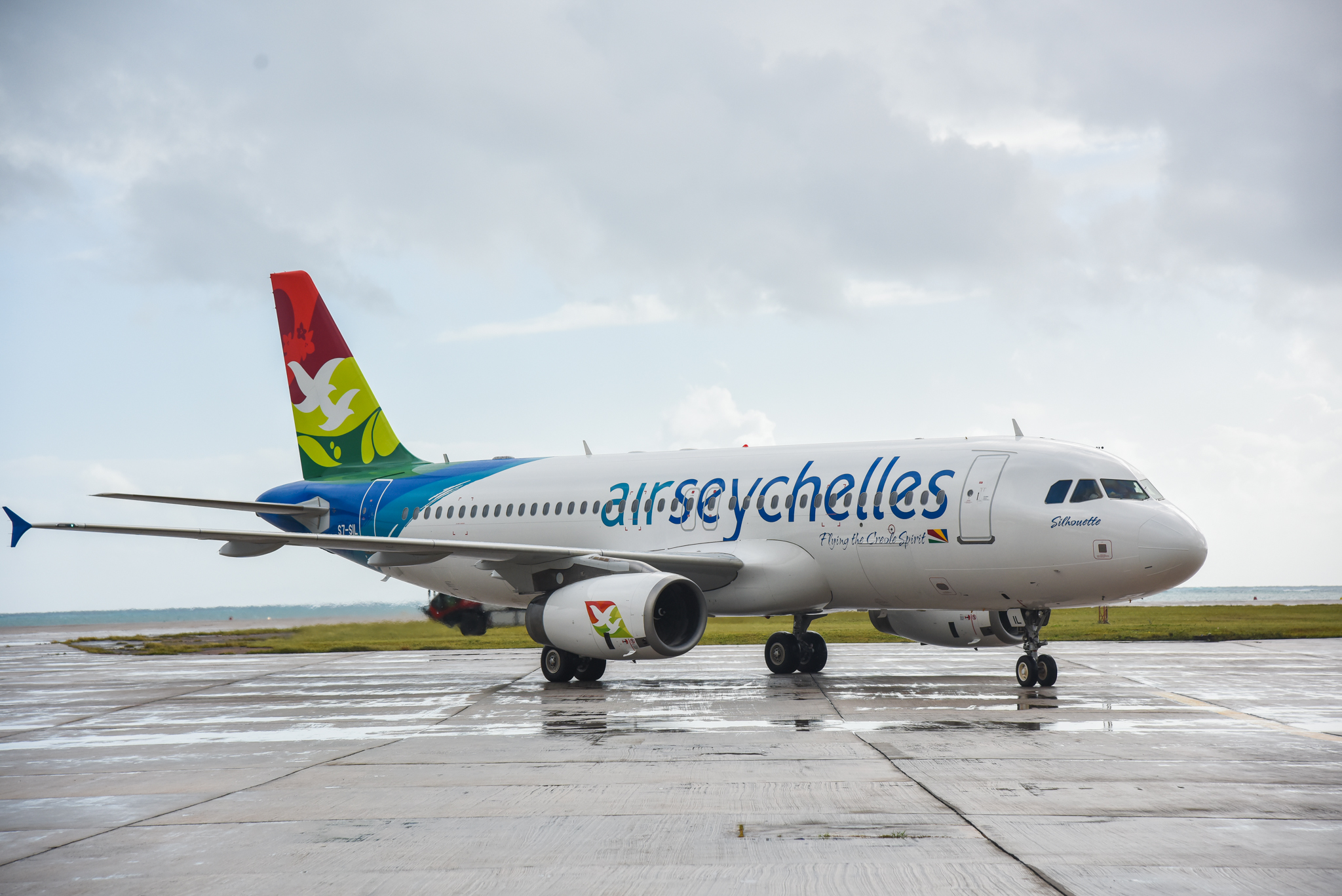 The Air Seychelles Airbus A320-200, Isle of Silhouette.